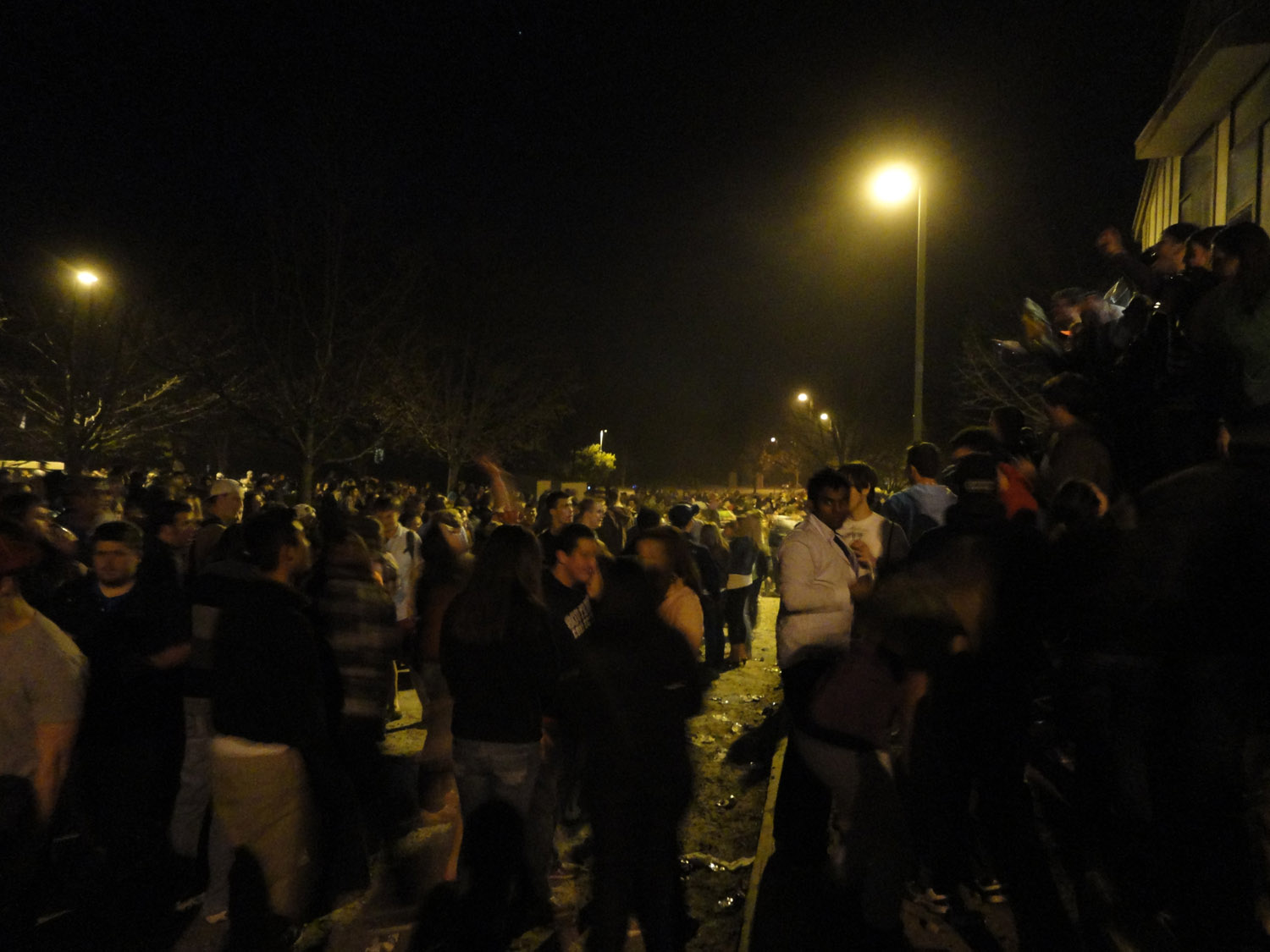 UConn Spring Weekend.